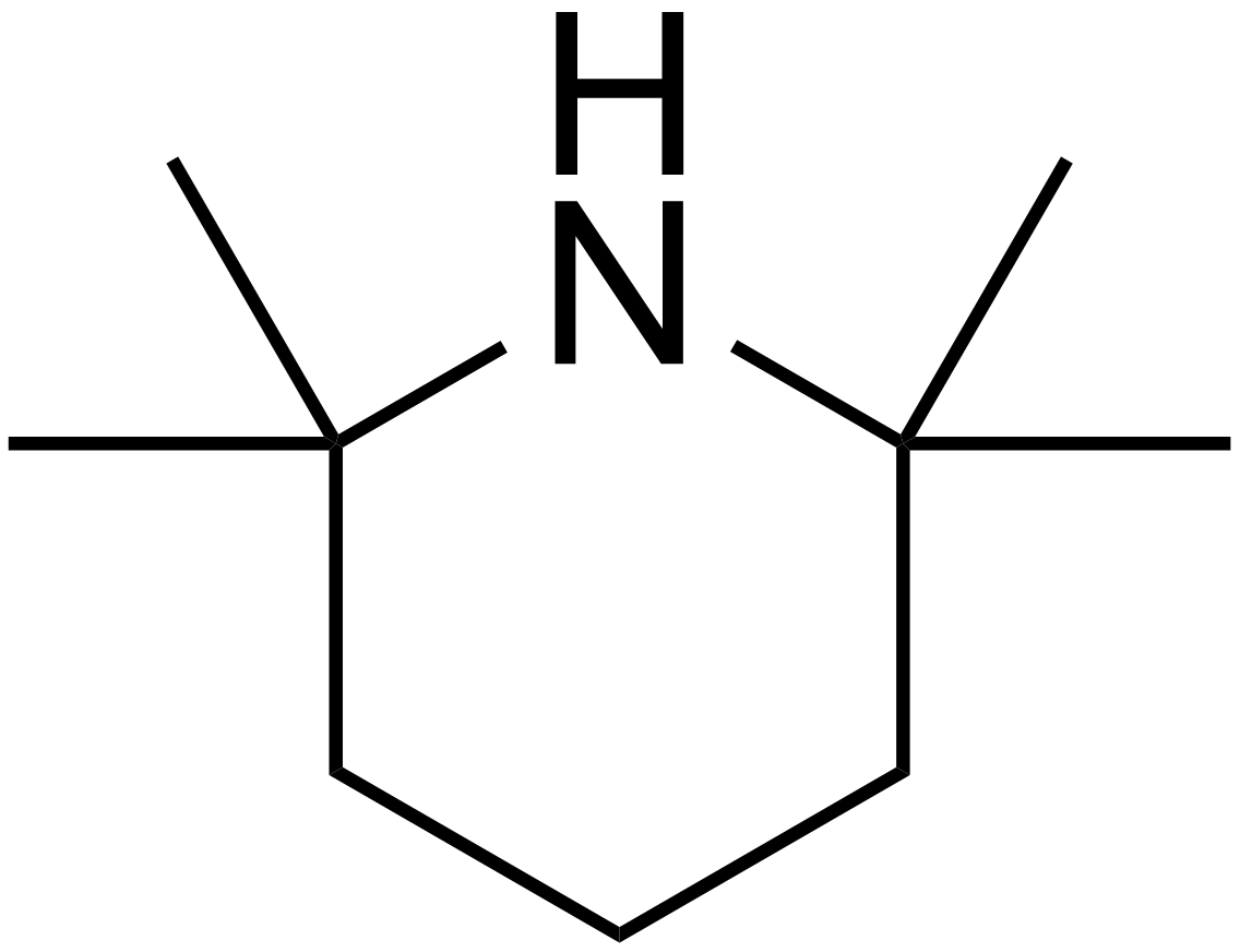 Chemical structure of tetramethylpiperidine